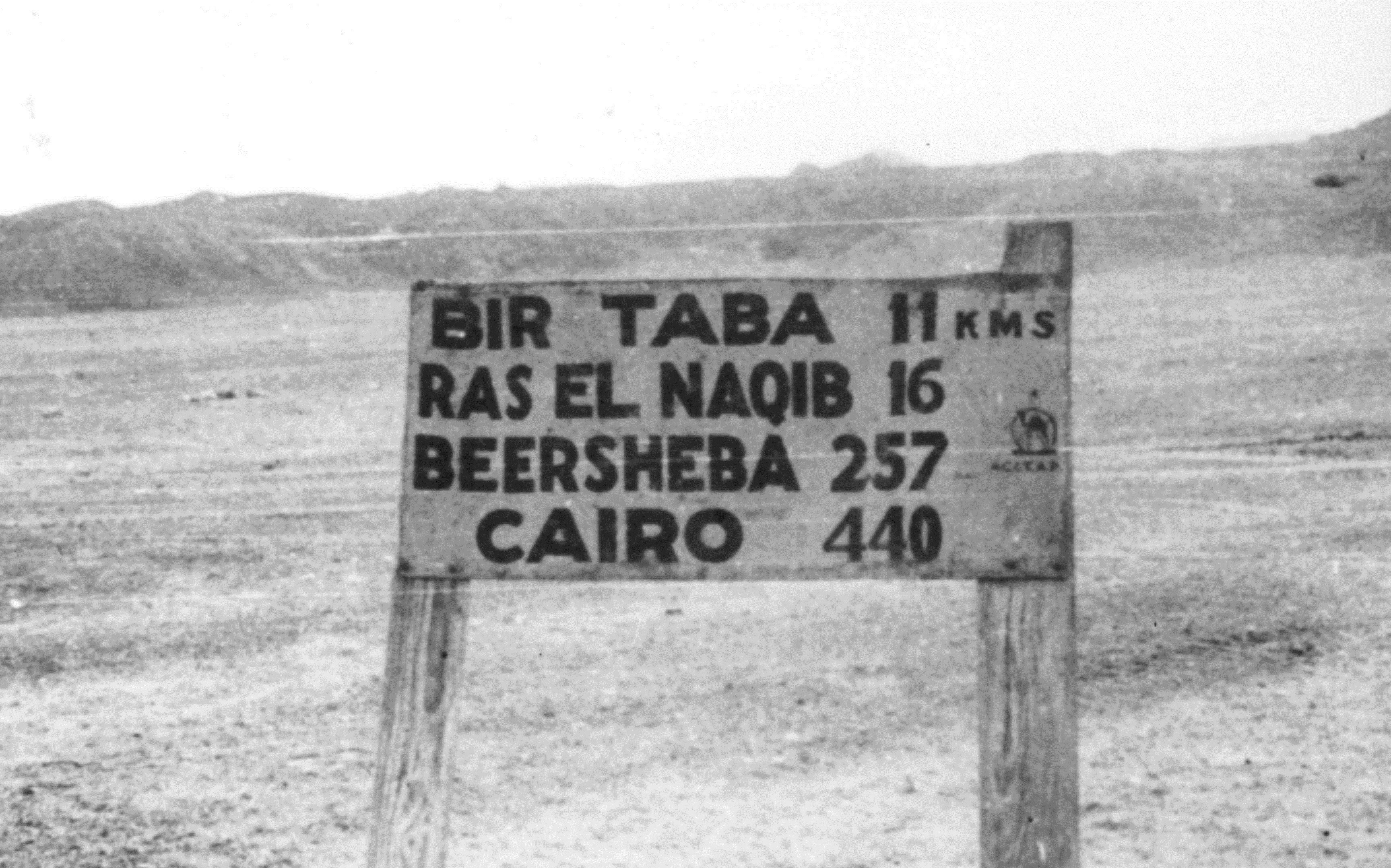 The Palmach, Israel Defense Forces